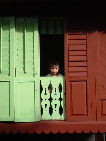 Boy looking out of a traditional Malay kampung house window in Sri Menanti, Negeri Sembilan, Malaysia.